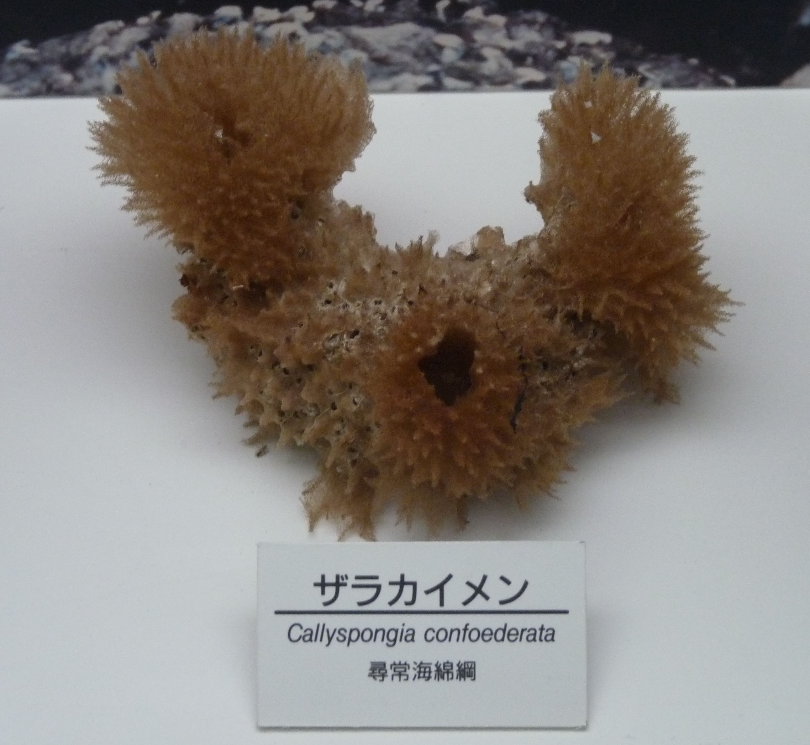 Callyspongia confoederata at Osaka Museum of Natural History